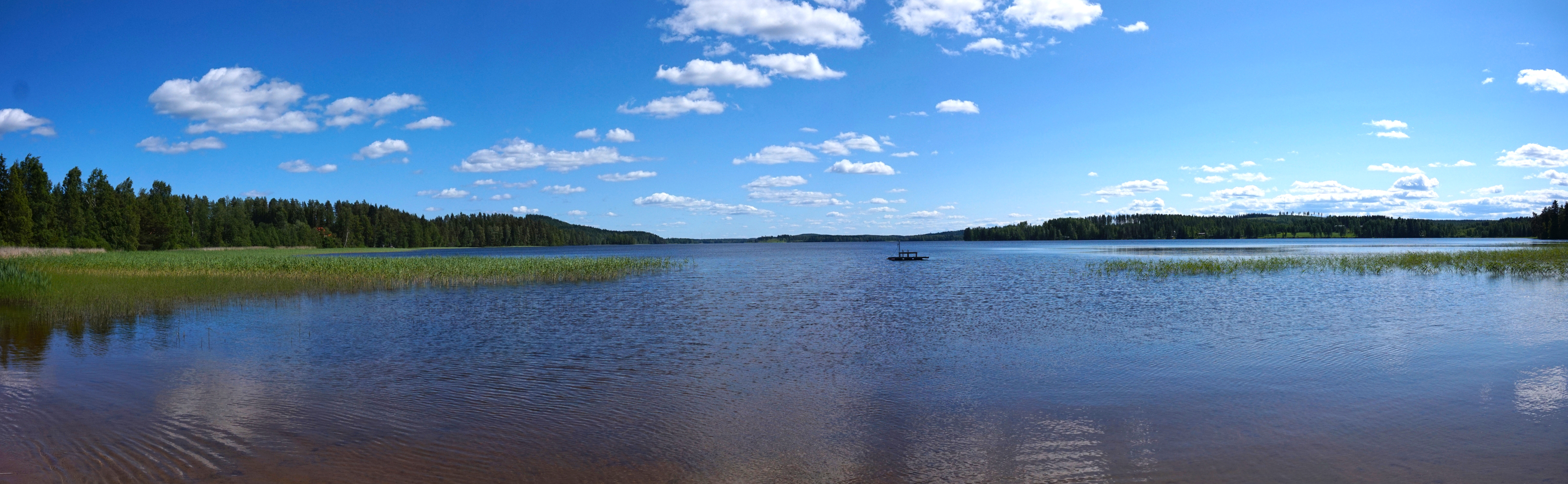 The lake Peurunka in Laukaa.This photograph was taken with a Sony ILCE-5000